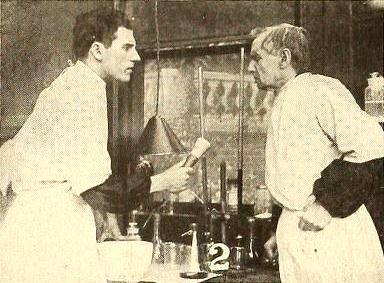 Still from the American film The Old Chemist (1915) with Frank Bennett and Thomas Jefferson, on page 9 of the March 20, 1915 Reel Life magazine. The magazine page had stills from several films and each had a number.